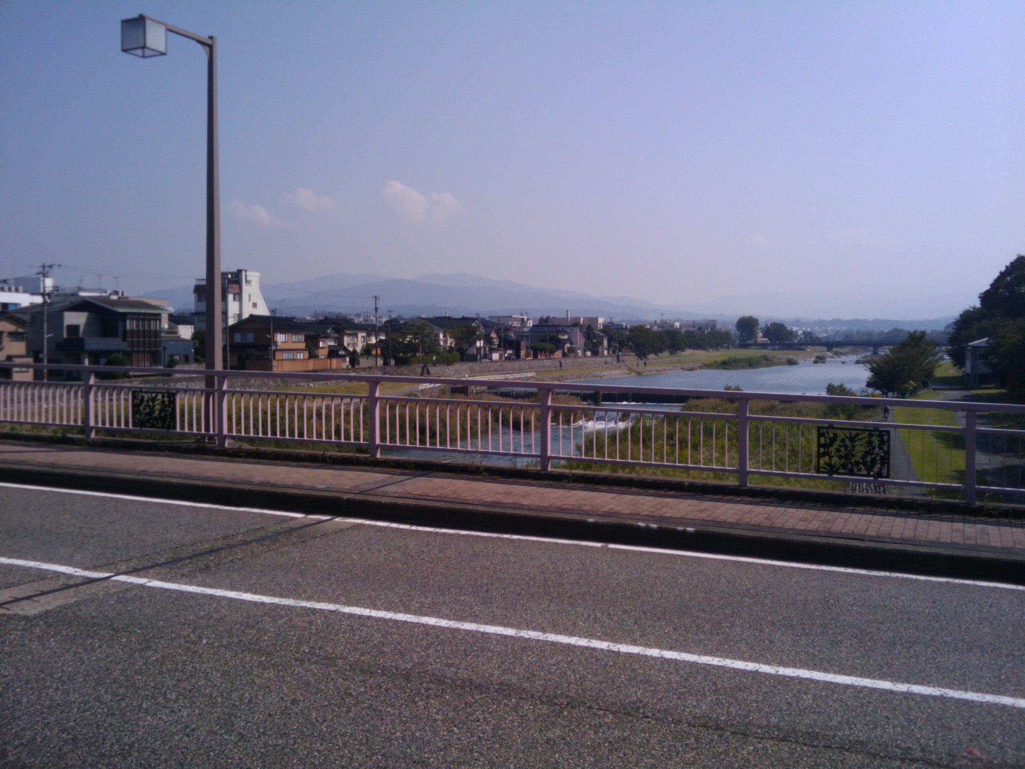 The view from the Sakurabashi bridge over the Saigawa river in Kanazawa city, Ishikawa, Japan. Mountains are Iwozen.